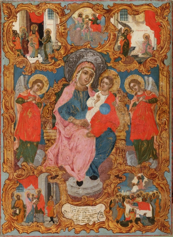 Icon of Virgin Mary on the throne from Apostolis Longianos from 1772.